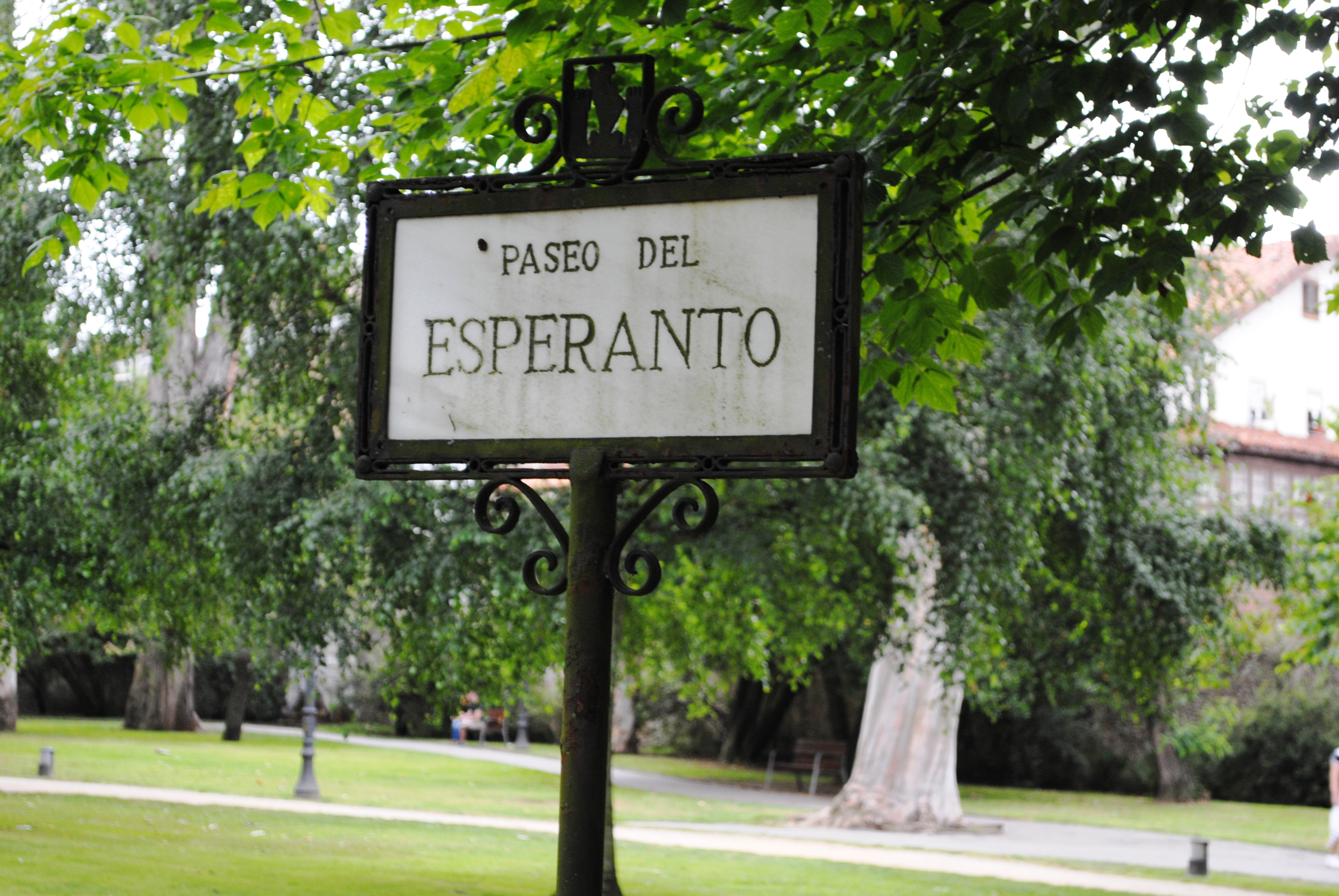 See title.